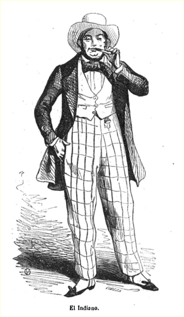 "El Indiano", from the book Los Españoles pintados por sí mismos.